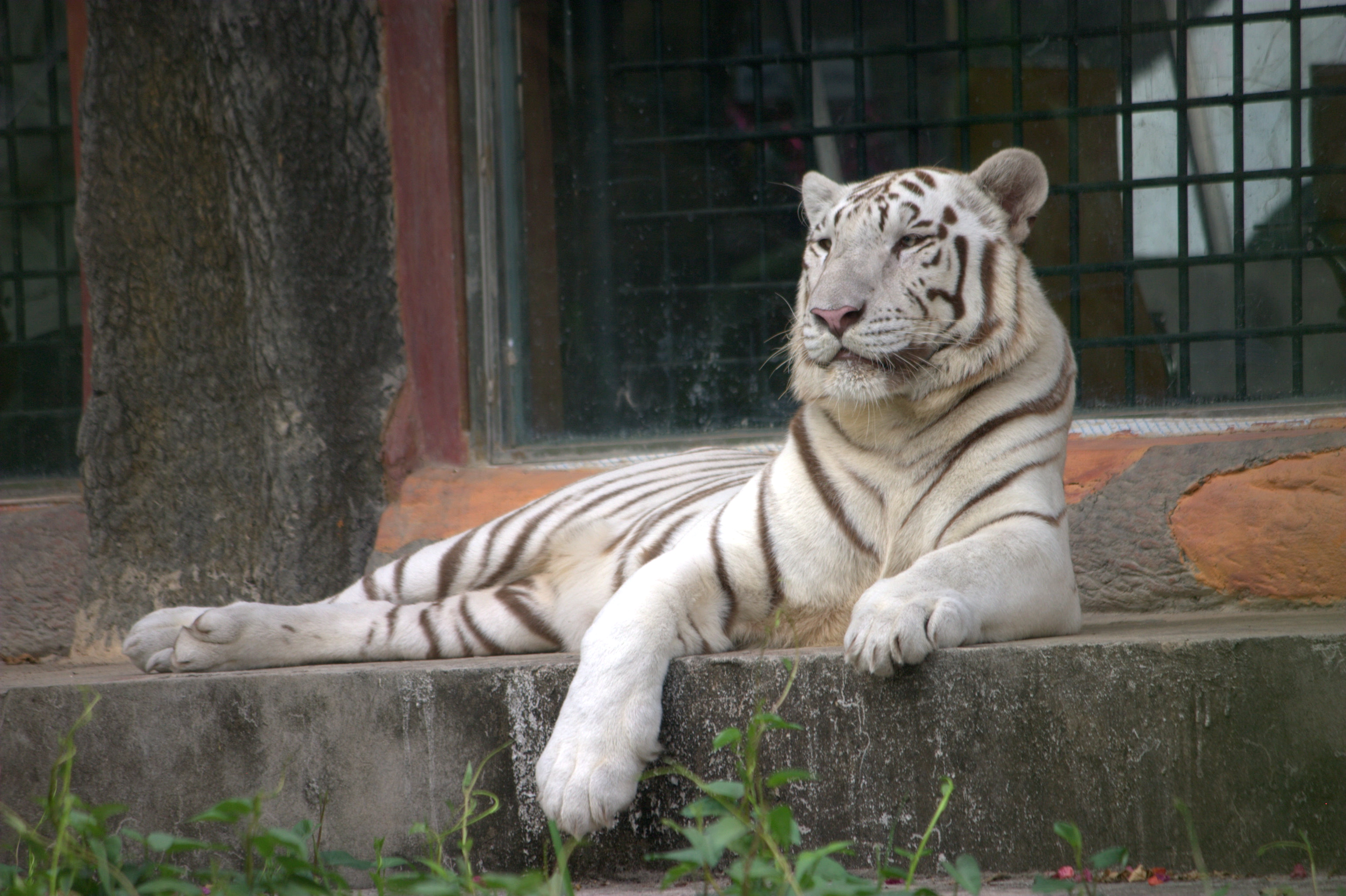 Siberian Tiger in the Ho Chi Minh City Zoo (Vietnam)